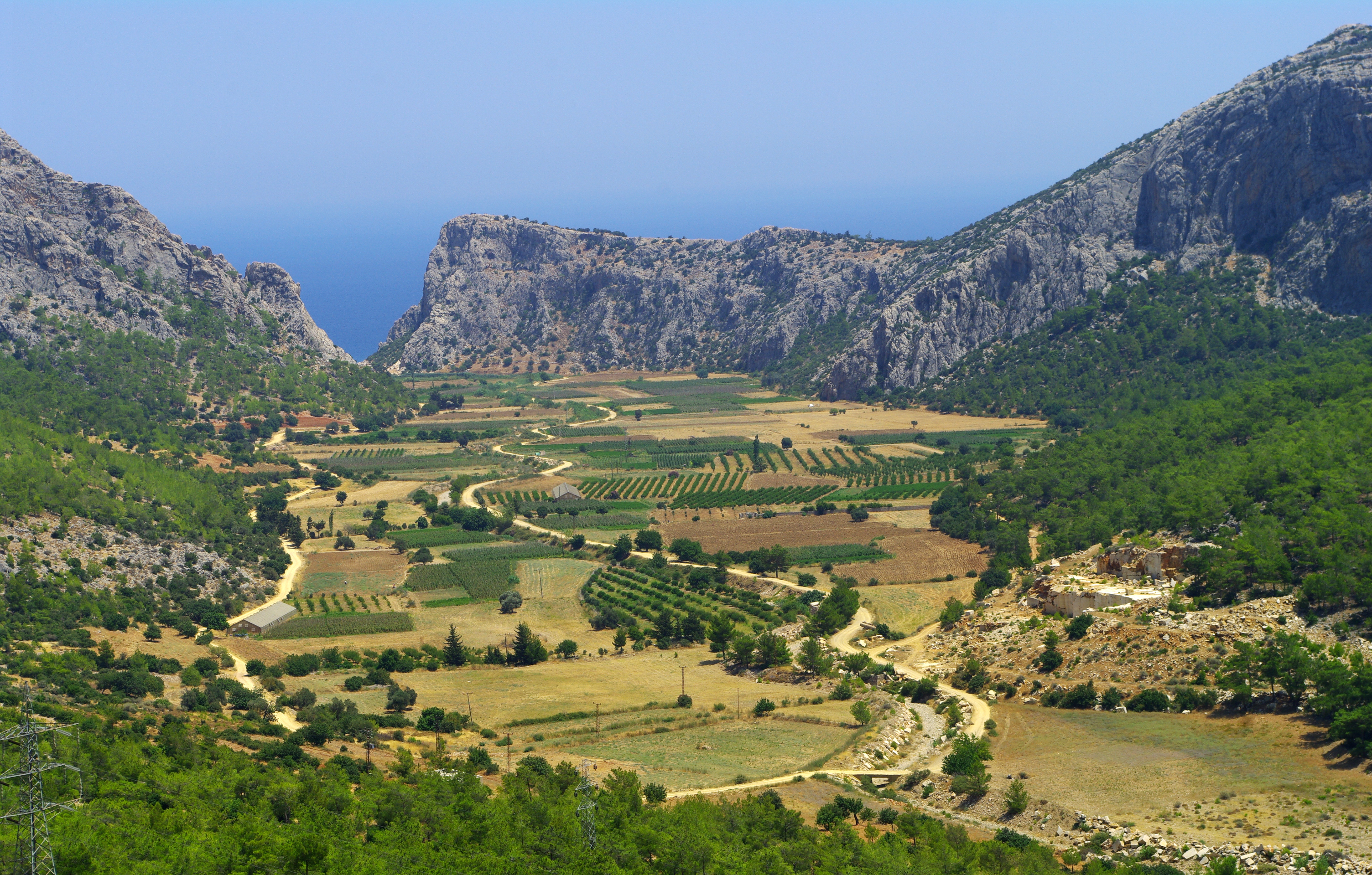 A view of the Eğribük valley to ancient city Palaiapolis near Akdere Village. (The bay at the end of this valley is called as Barbaros Bay, Tahtalimanı or Eğribük Bay). Silifke - Mersin, Turkey.